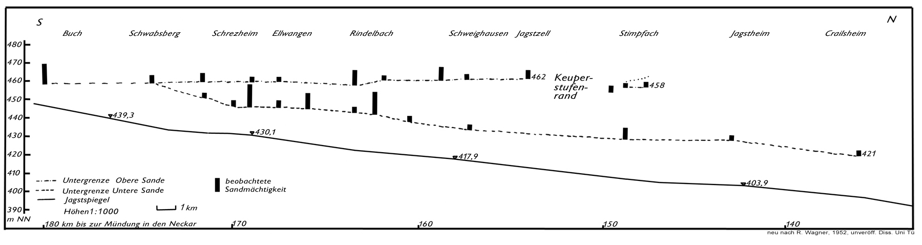 Cross section of fluvial terrace findings along river Jagst. Only the “Obere Sande” are verifications of "Goldshöfer Sande", considered to be rests of an Early Pleistocene danubian anastomosing river system (wide braided rivers with very gentle gradient).